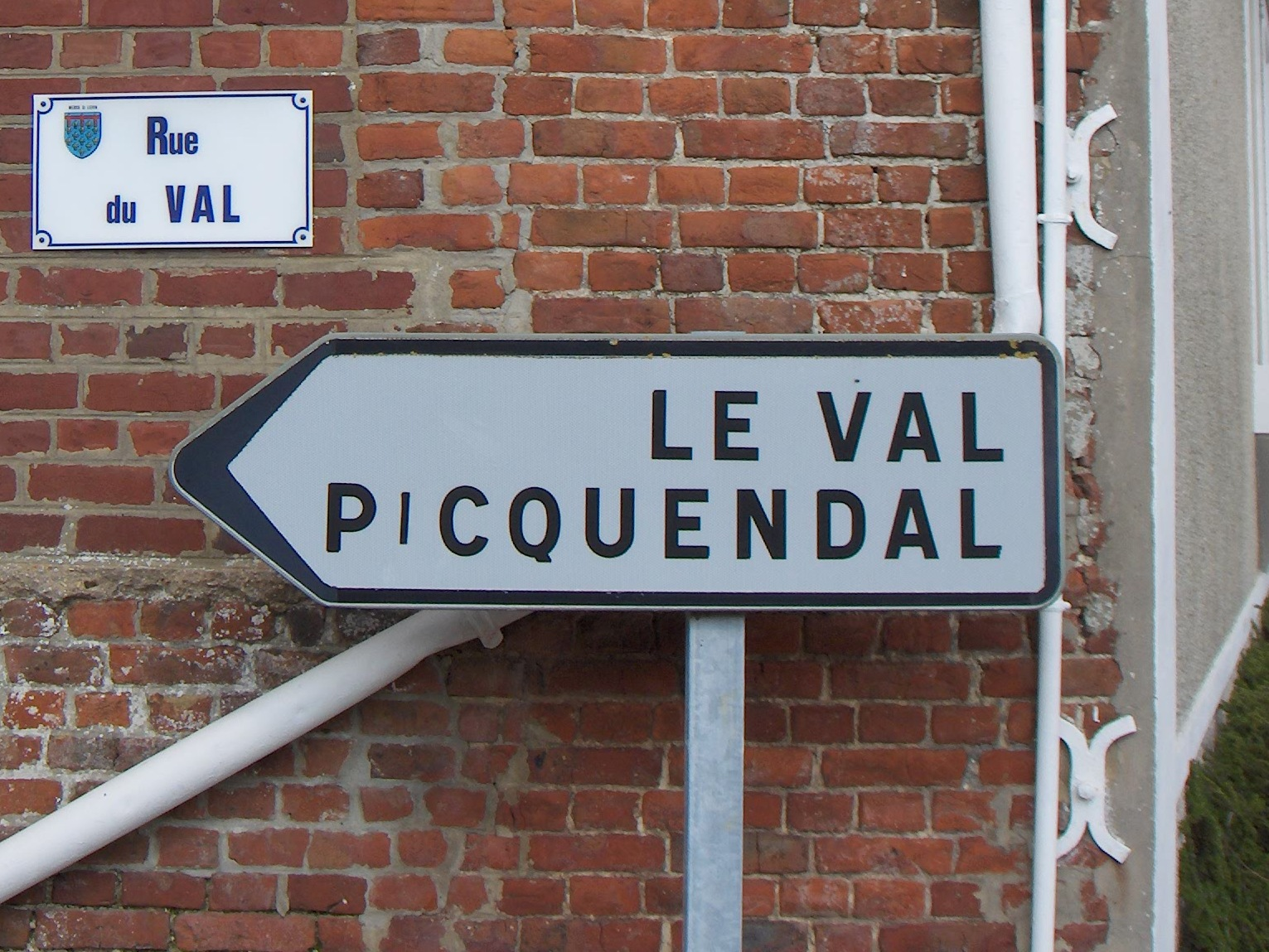 ign post to Picquendal, a hamlet near Merck-Saint-Liévin (France, Dept. Pas-de-Calais) with a name which has clearly Germanic origins and shows partly a Germanic sound evolution (corresponding to Present Day Dutch "Pikkendal"), illustrating the many toponyms of Germanic origin in Northern France, far beyond the historical borders of the county of Flanders.